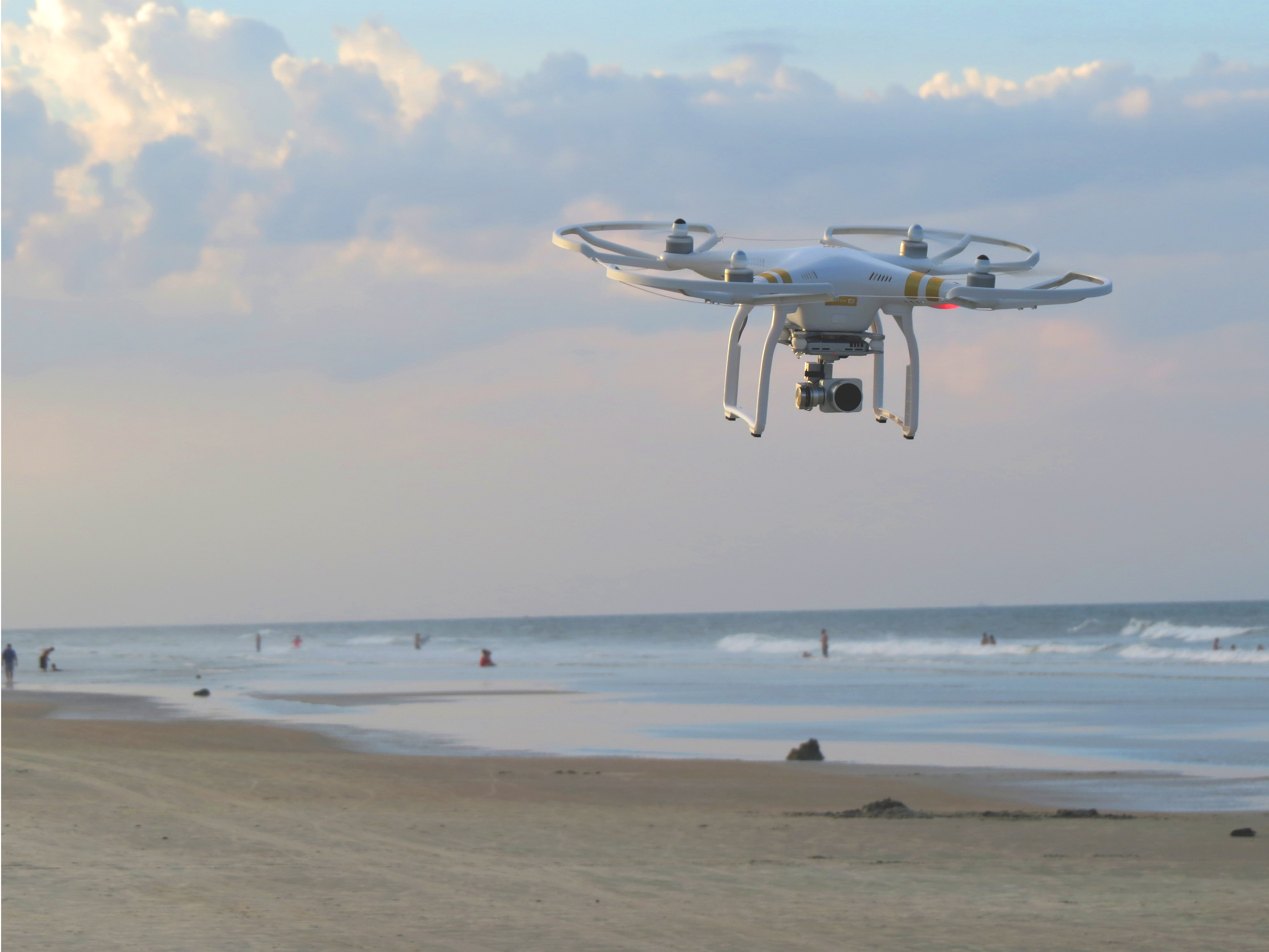 New Smyrna Beach, United States